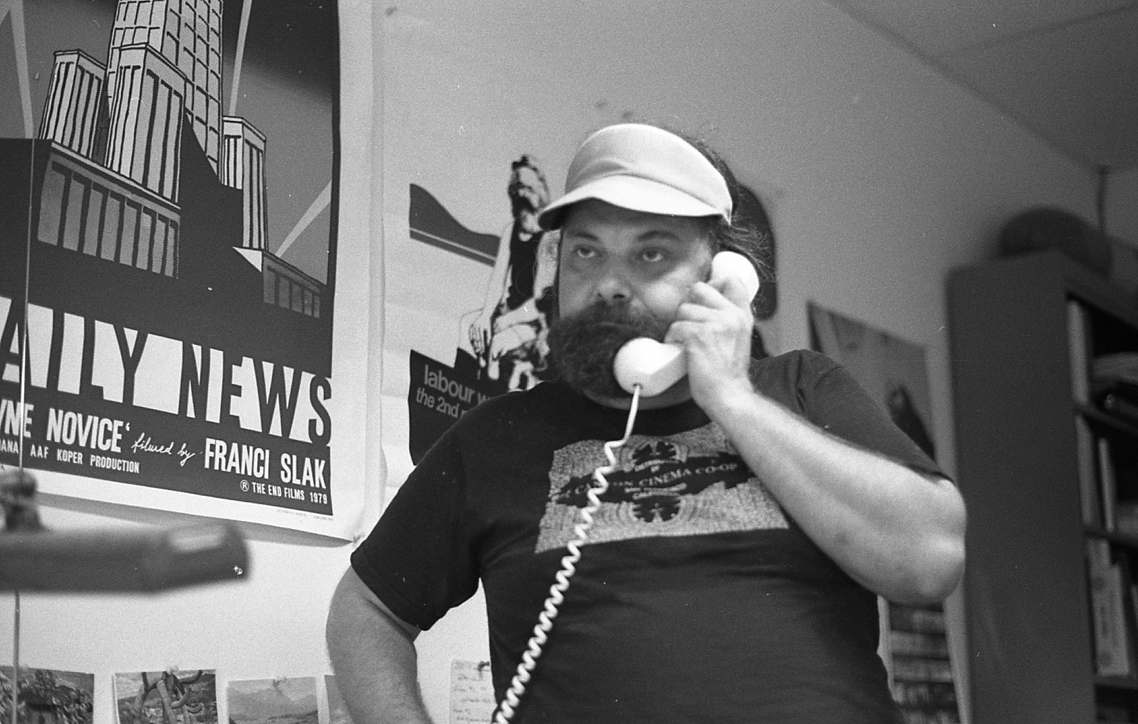 Chuck Kleinhans in his office at Northwestern University (Evanston, Illinois) where he was a professor.